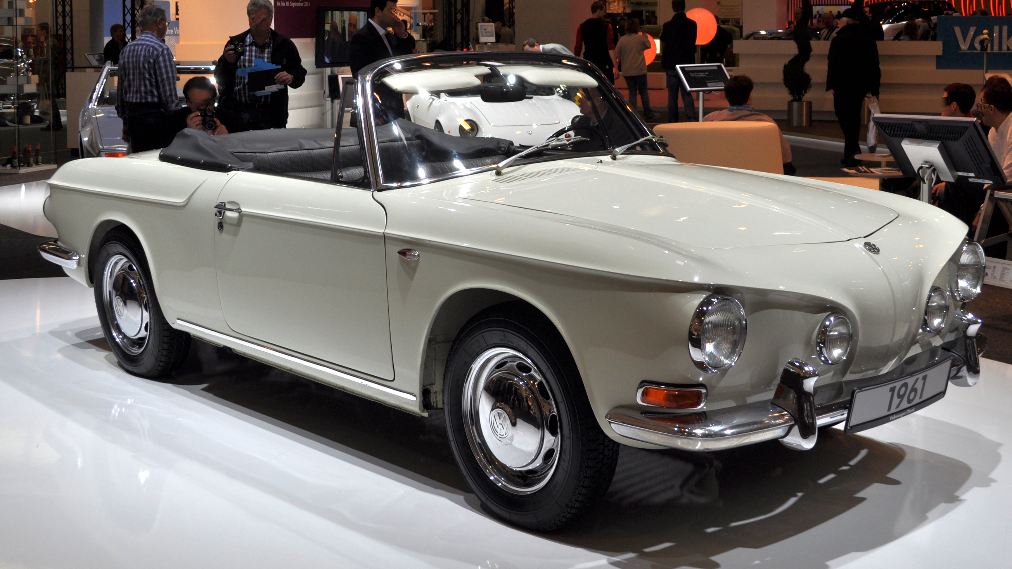 VW Karmann-Ghia Typ 34 Cabrio (1961), Essen, Technoclassica 2011